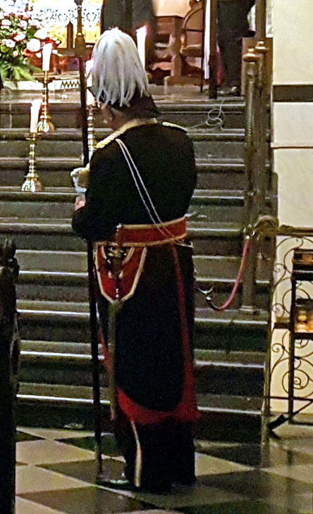 A uniformed Suisse (beadle or ecclesiastical guard) during the closing ceremony of the 2018 Heiligdomsvaart ("Relics Pilgrimage") in the Basilica of Saint Servatius in Maastricht, Netherlands.